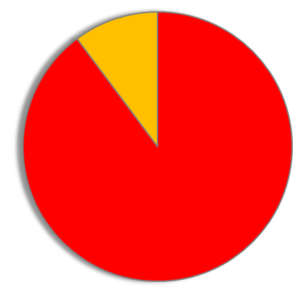 Expressed as a pie chart in the Toyama gubernatorial election in 2012, the number of votes for each candidate. explanatory notes ■ - Takakazu Ishii ■ - Kanji Komeuchi